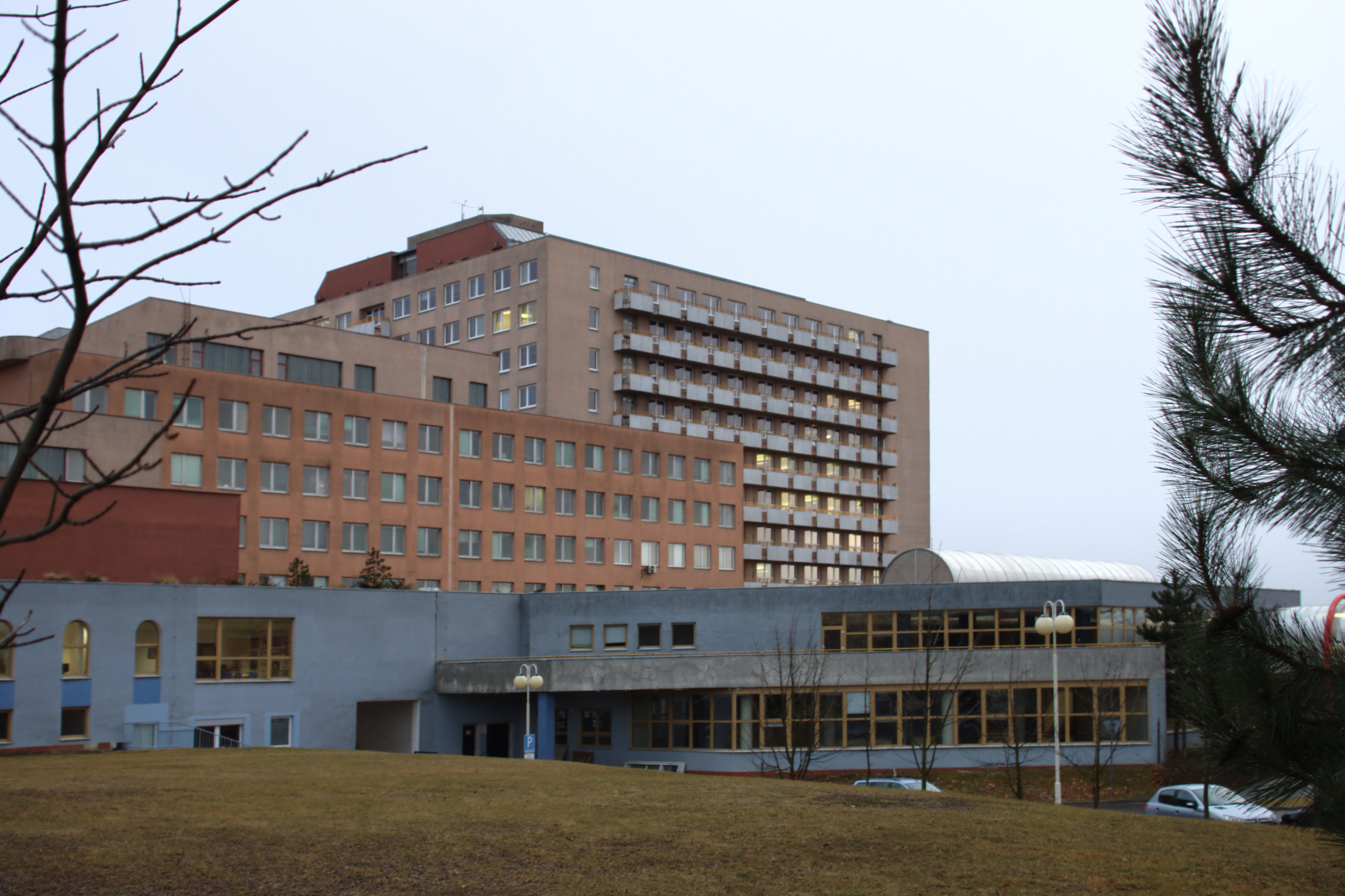 Main building of the Ostrava University Hospital in Ostrava-Poruba, CZ Project: Fotíme Česko